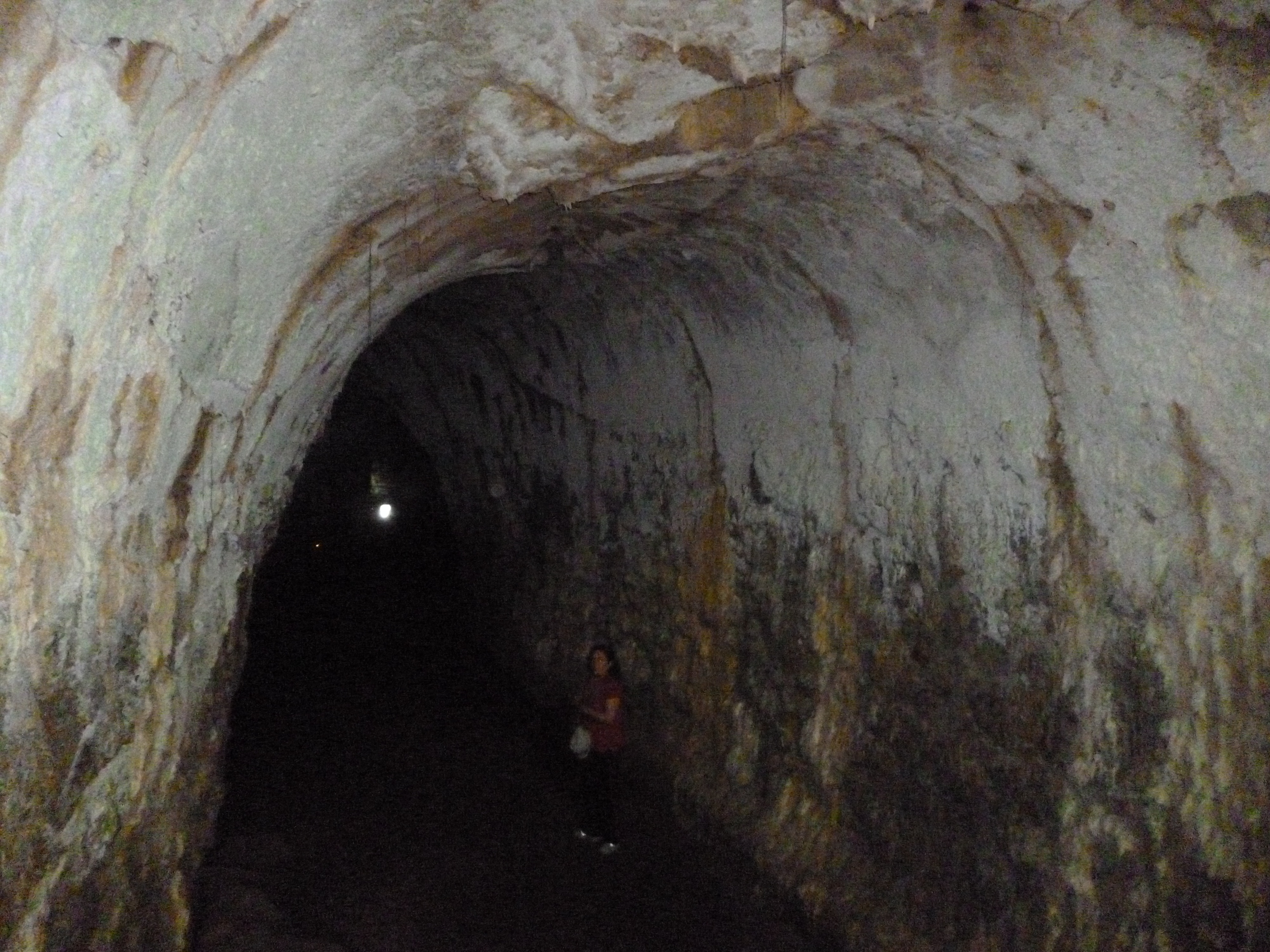 Photographed by professional photographer David Adam Kess on Santa Cruz Island in the Galapagos in 2011, lava tubes